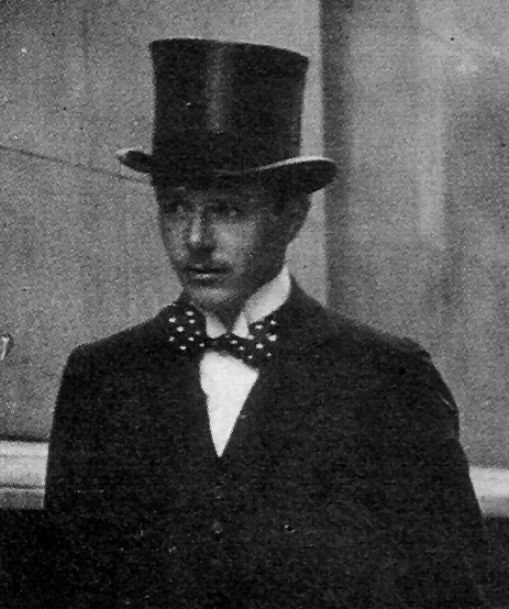 From left to right: Harold Nickolson, Vita Sackville-West, Rosamund Grosvenor, Lionel Sackville-West